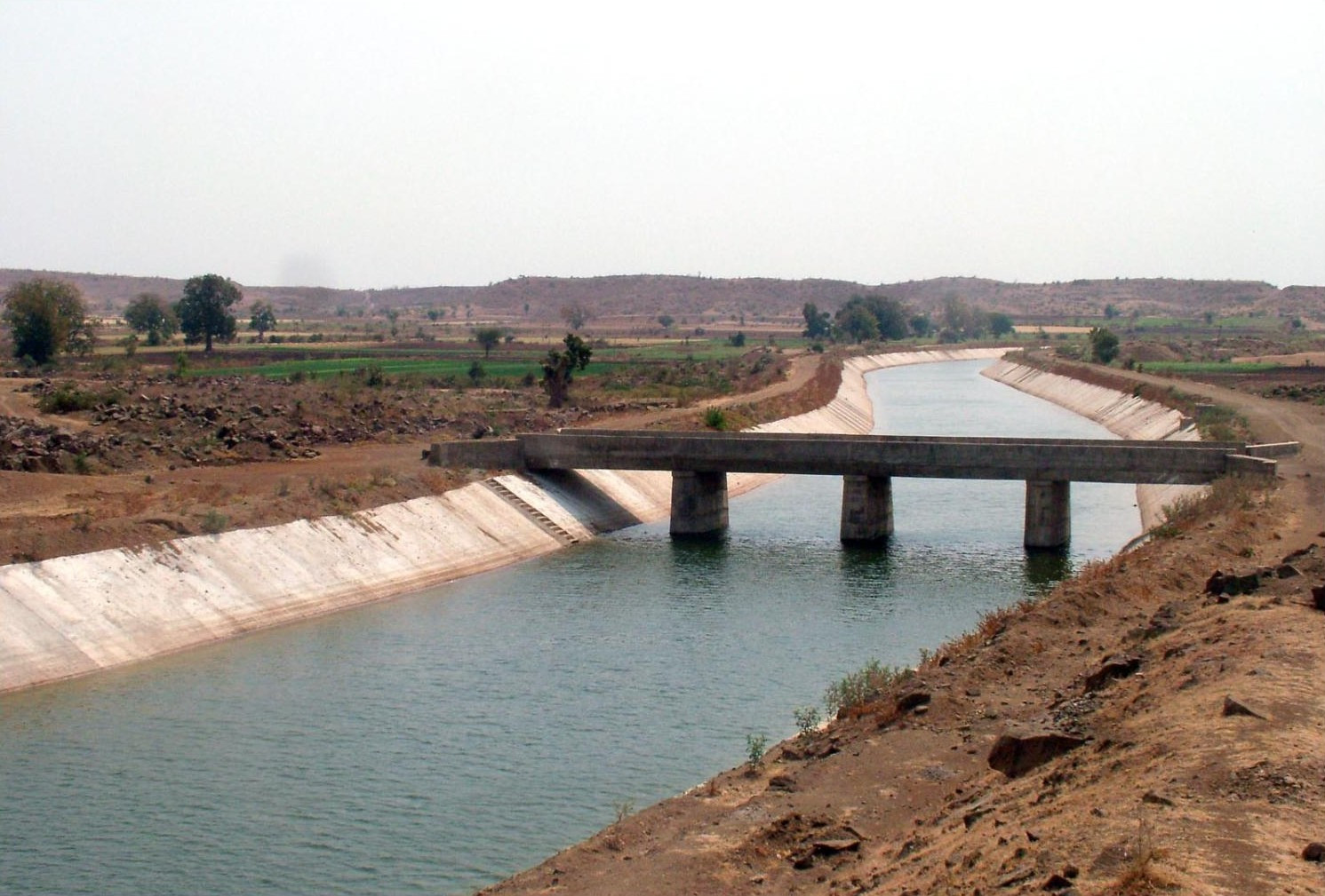 Sardar sarovar canal with flow